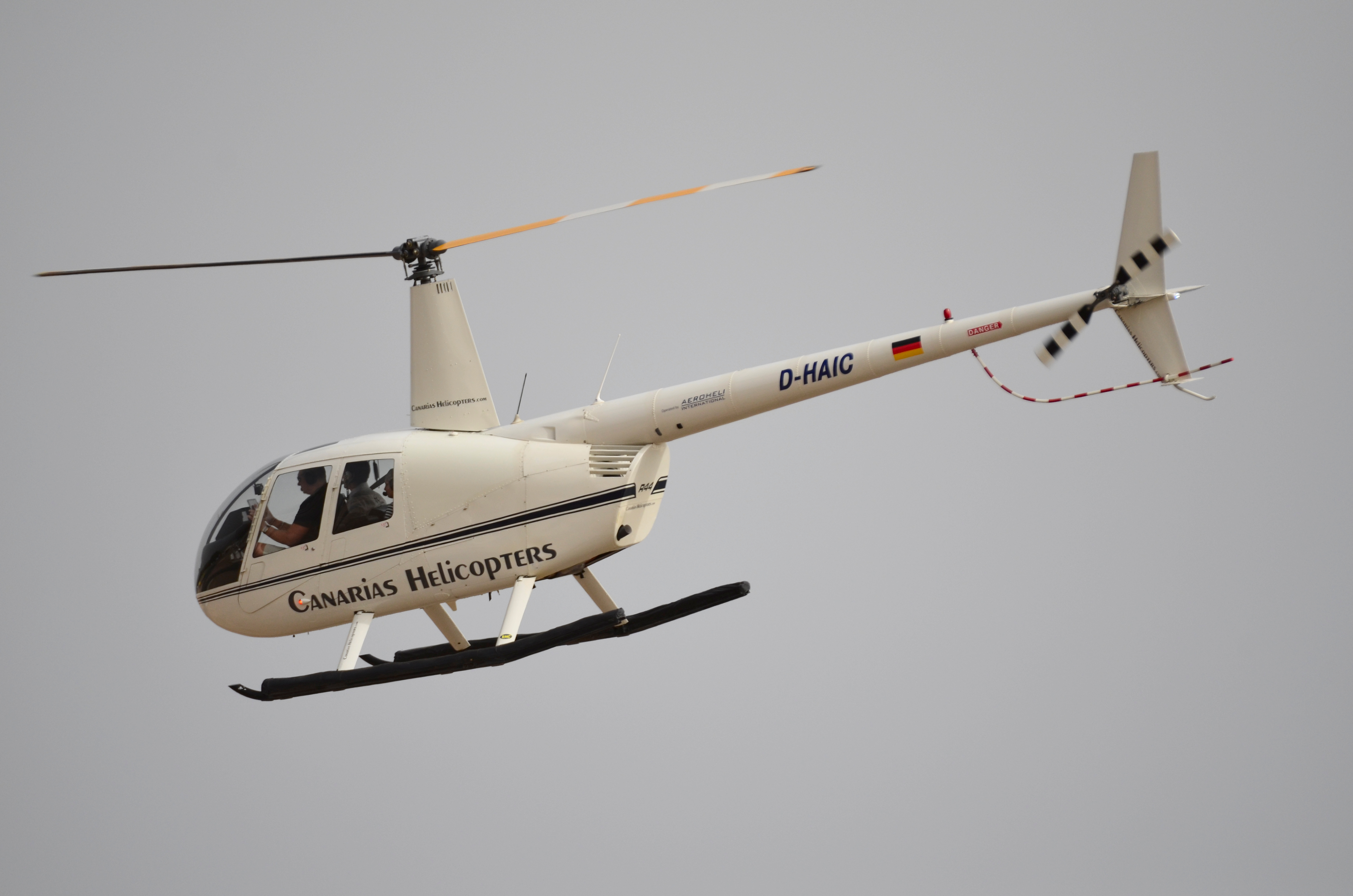 Helicopter in Gran Canaria